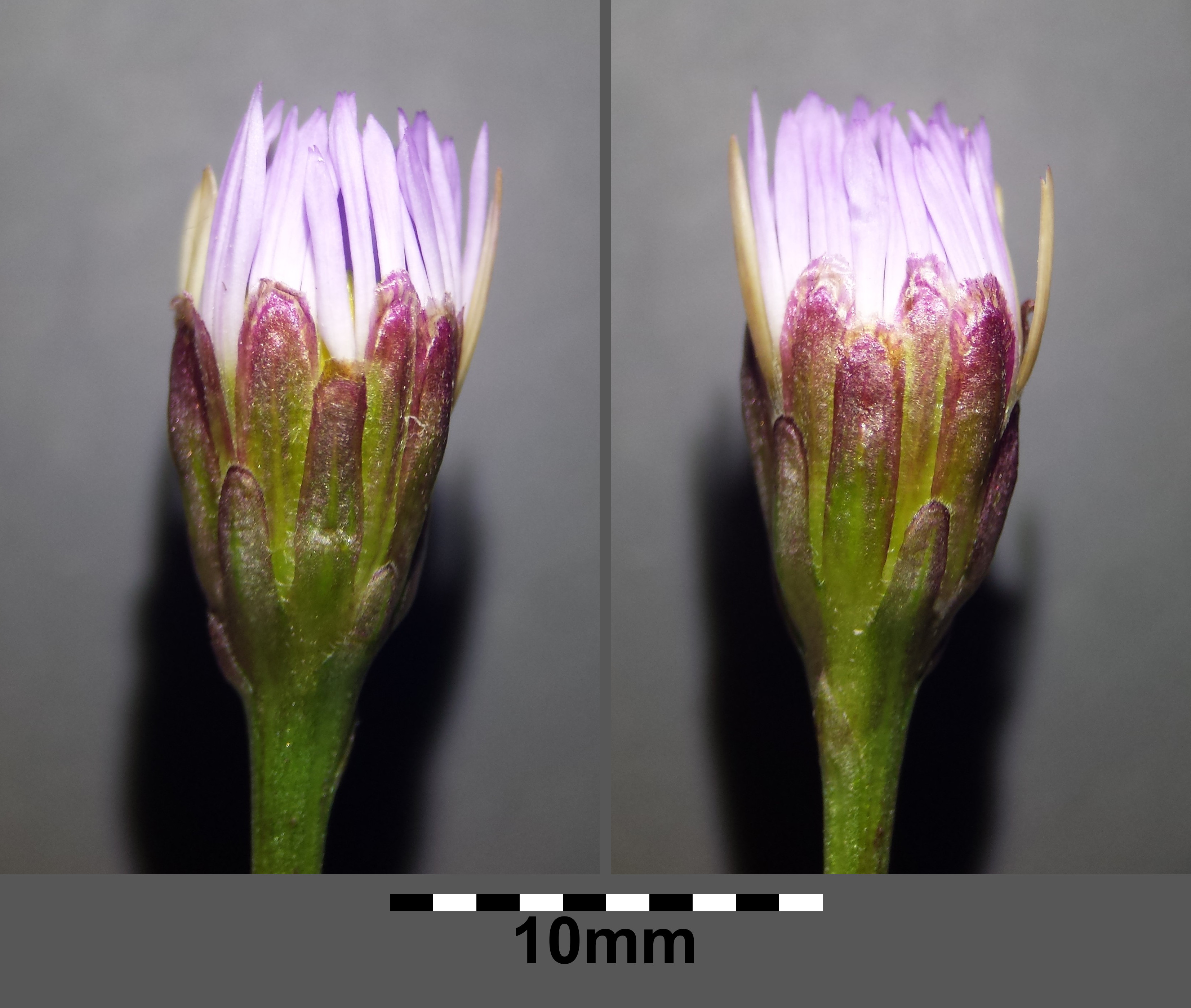 Flower basket Taxonym: Tripolium pannonicum (subsp. pannonicum) ss Fischer et al. EfÖLS 2008 ISBN 978-3-85474-187-9 Location: next to Zwingendorfer, district Mistelbach, Lower Austria - ca. 185 m a.s.l. Habitat: fallow land